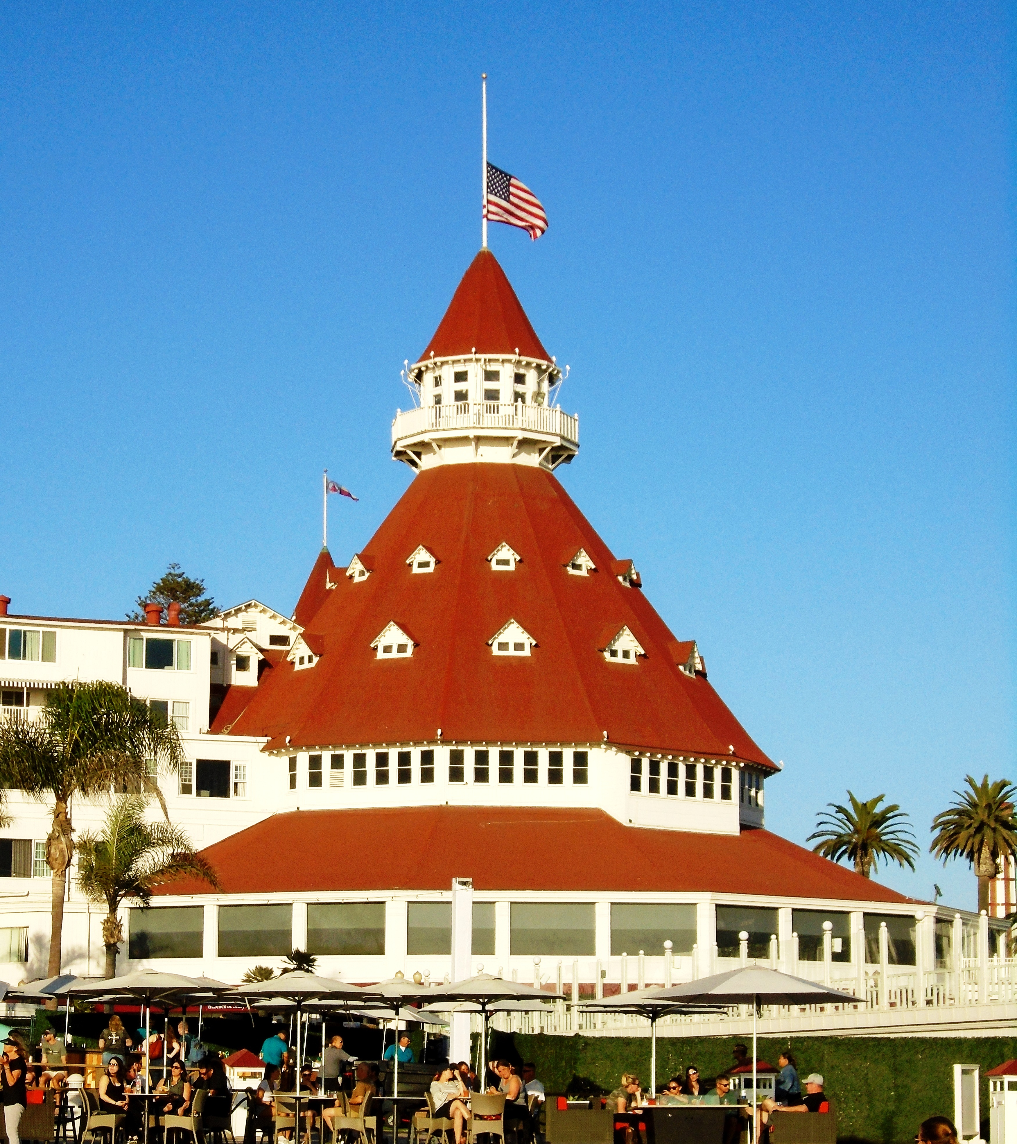 The rotunda of the Hotel del Coronado in Coronado, California.